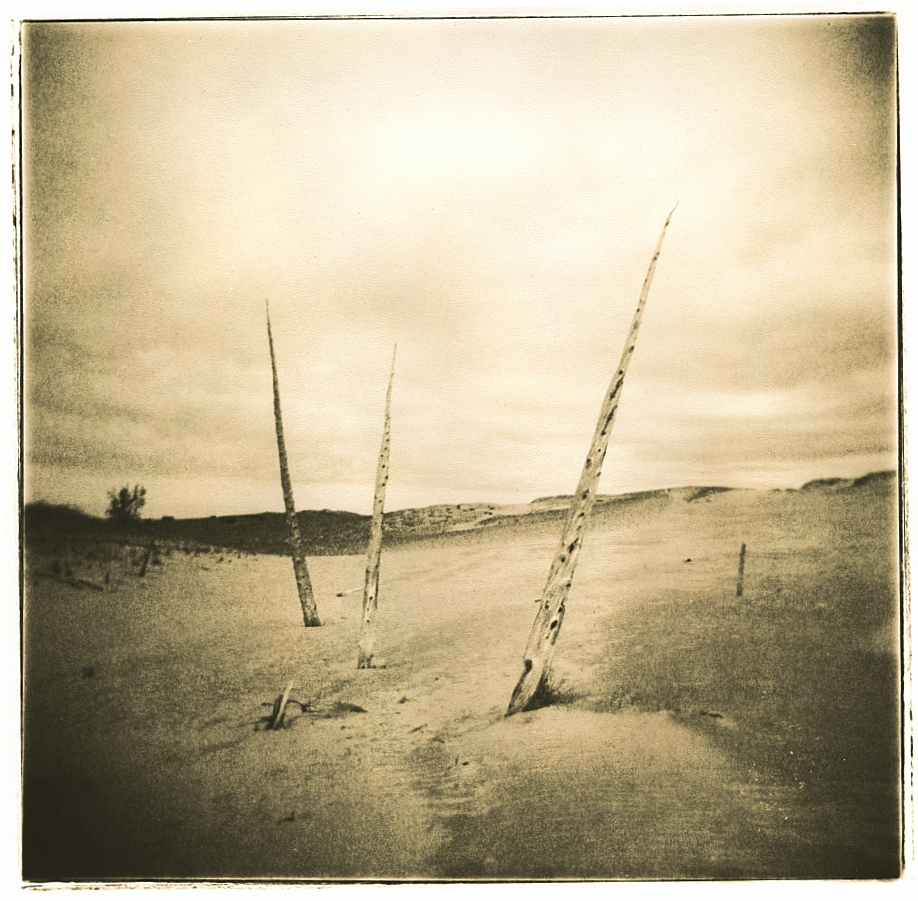 Holga, Tri-X, lith print.